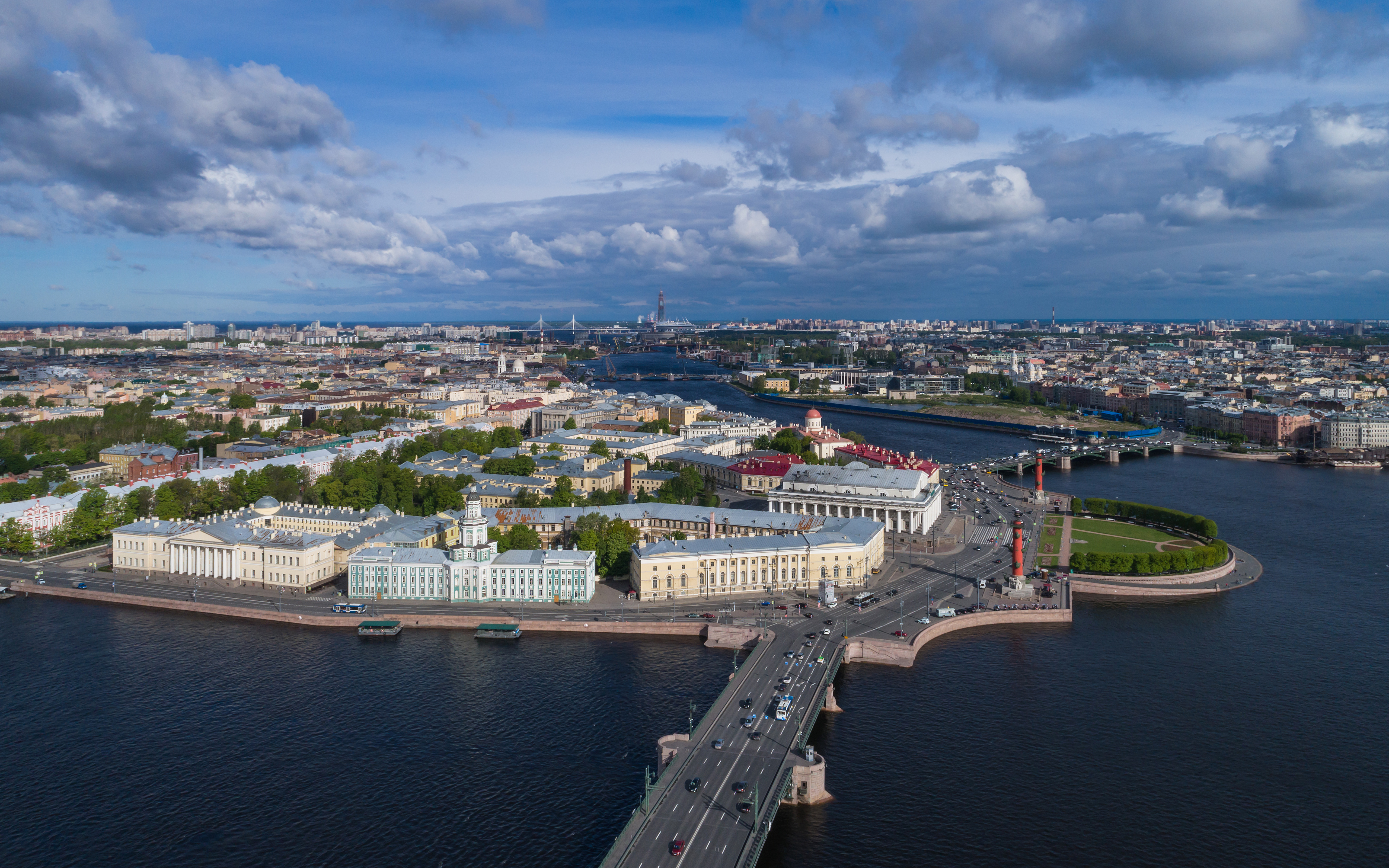 Aerial photo of the Vasilievsky Island Spit in Saint Petersburg (Russia).